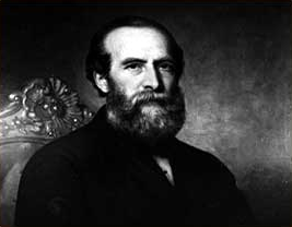 A painting of Walter S. Gurnee